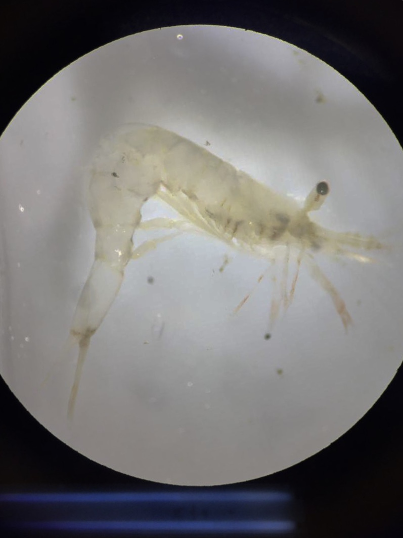 Larva de camarão vista em microscópio (400x)